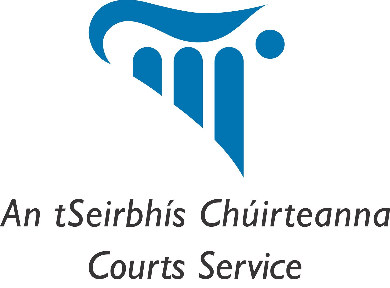 Logo of the Courts Service of Ireland